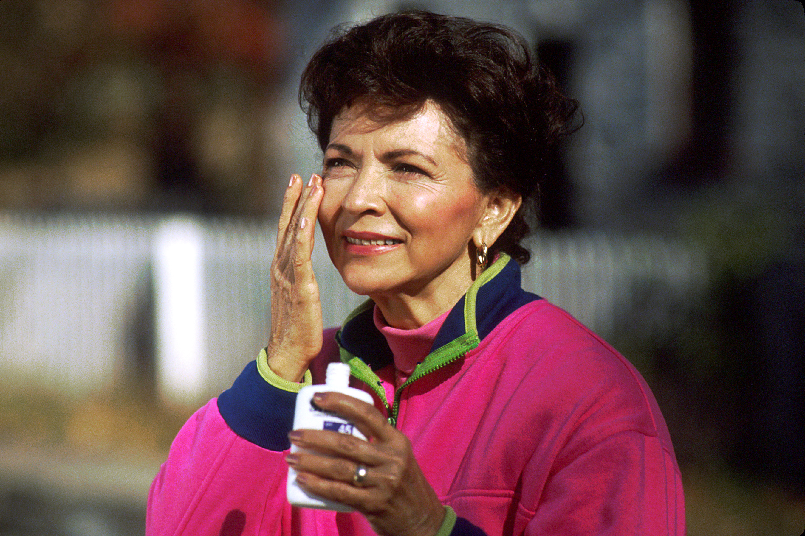 Title Woman Applying Sunscreen Description A woman in a hot pink jacket applies sunscreen to her face outside. Topics/Categories Locations -- Nature/Outdoors People -- Adult Type Color, Photo Source National Cancer Institute